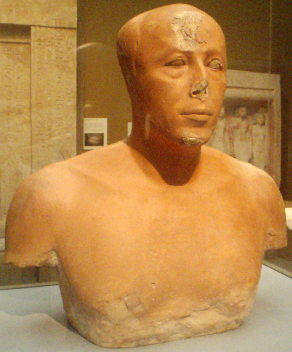 Bust of Prince Ankhhaf, from Giza, tomb G 7310. From the 4th dynasty, during the reign of Khafra, circa 2575-2550 B.C. Painted limestone. Now residing in the Museum of Fine Arts, Boston. Museum Expedition 27.442